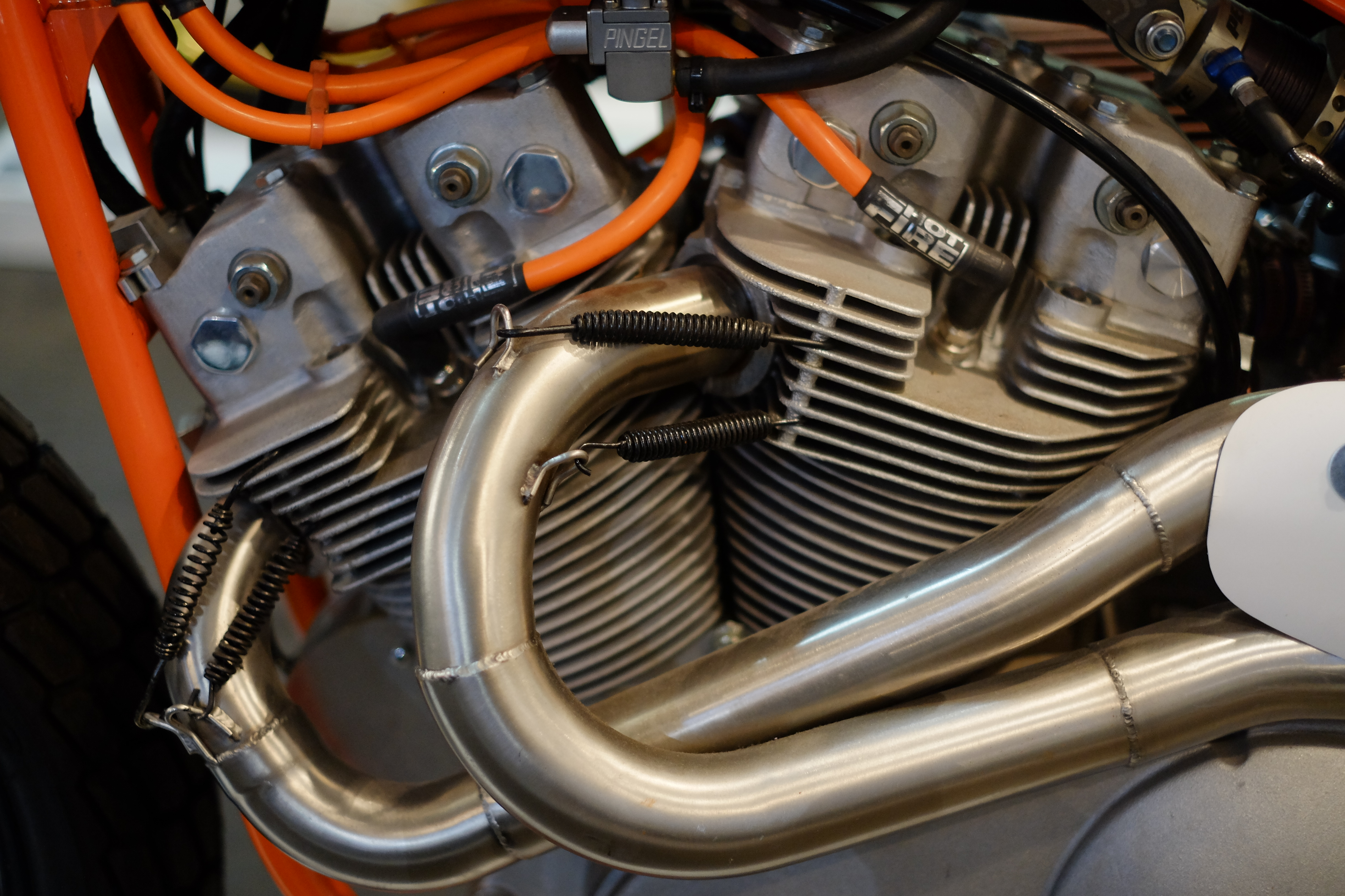 Team Latus Harley-Davidson XR-750 at The One Motorcycle Show, Portland, Oregon.